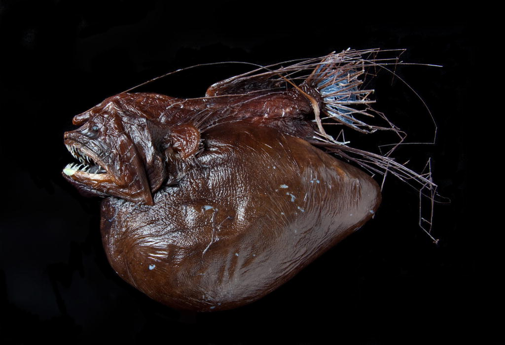 Caulophryne pelagica after a large meal.